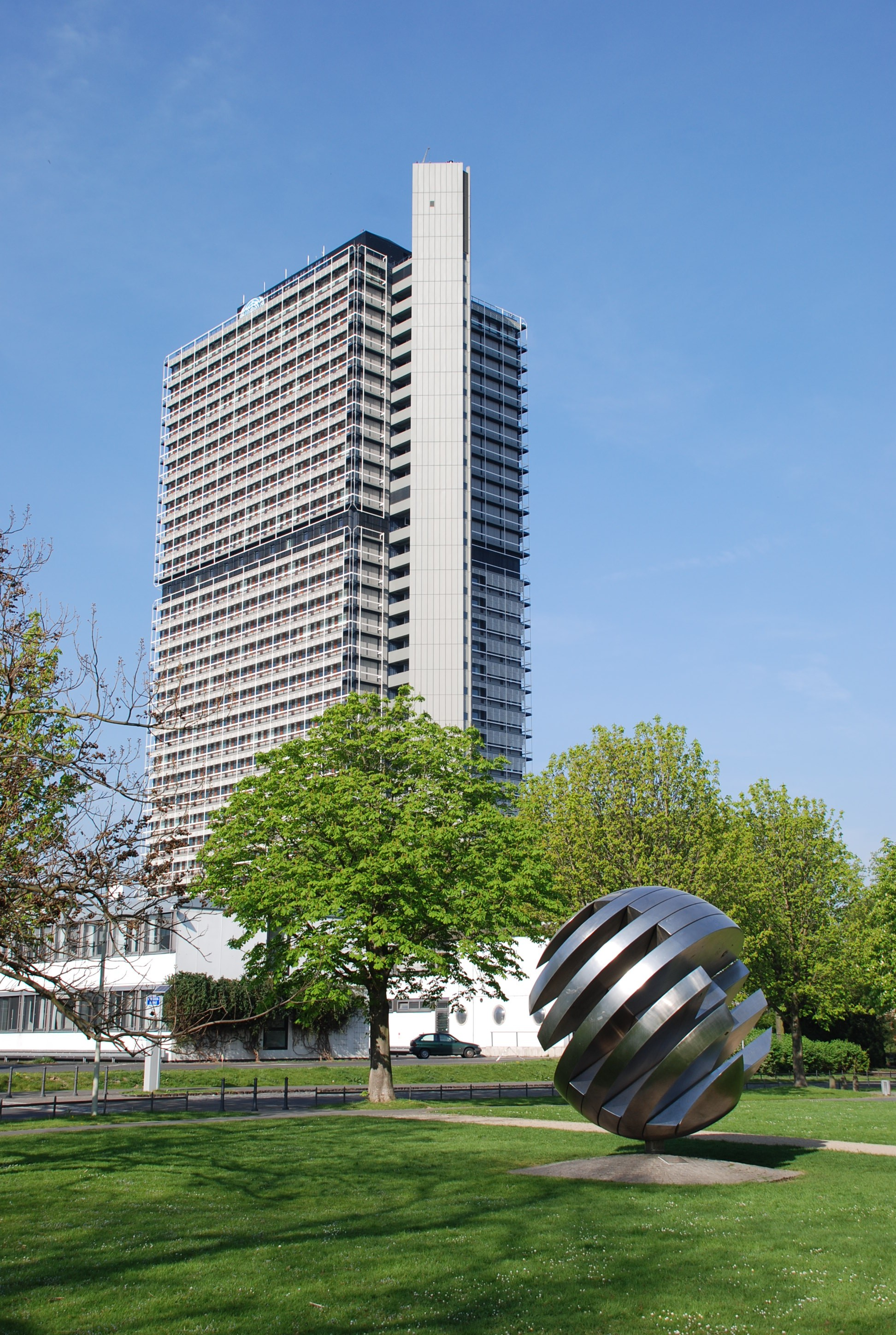 The skyscraper Langer Eugen (114.7 m) in Bonn, the former building for the German members of parliament, which nowadays is the new location of the UN-Campus